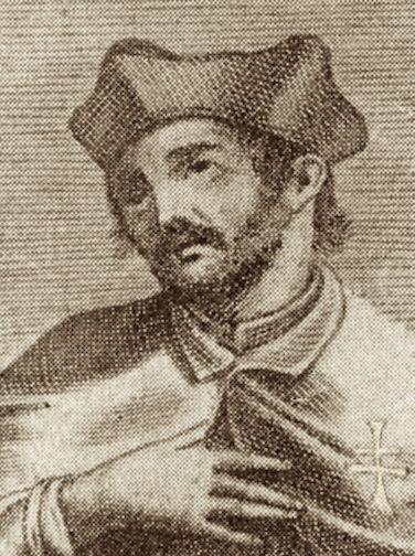 Saint Esprit